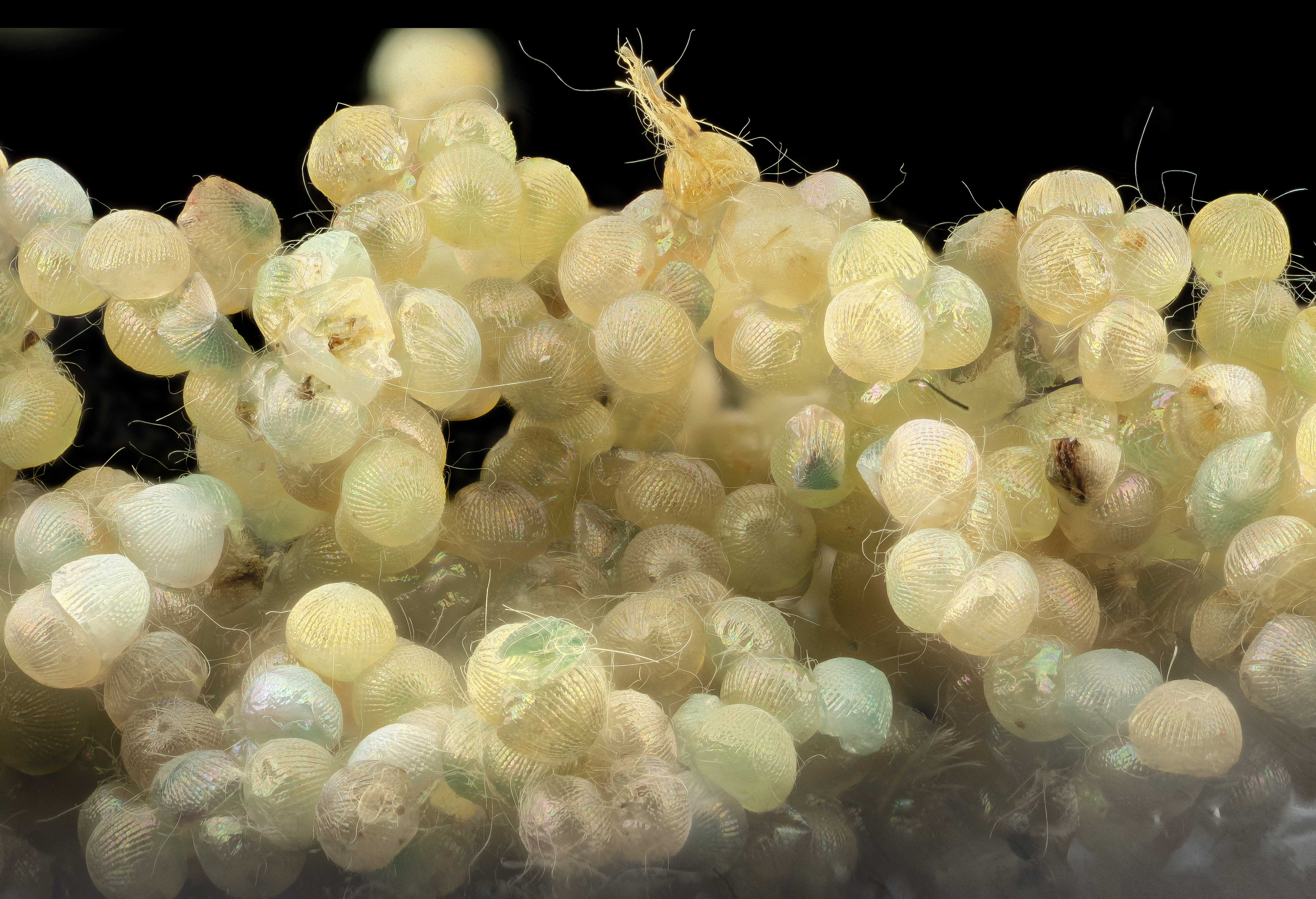 Spodoptera frugiperda - Fall Armyworm, another defoliating moth species, slightly different from the previous series on the Southern Armyworm.